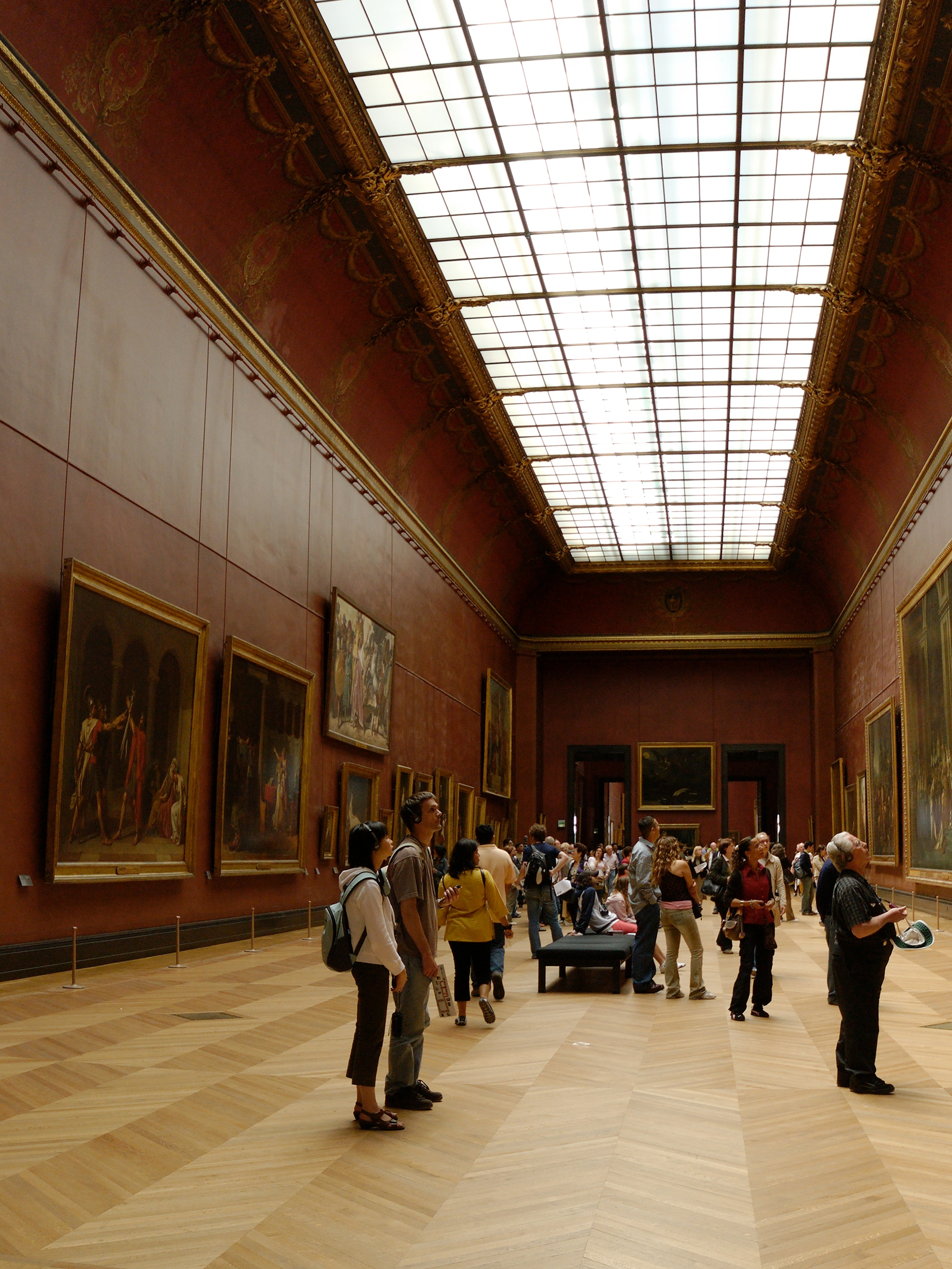 Daru room (room 75) of the Department of Paintings in the Louvre, dedicated to French Neoclassicism. The room contaings, amongst other things, paintings by David, Gérard, Girodet, Gros and Guérin. Denon wing, 1st floor.